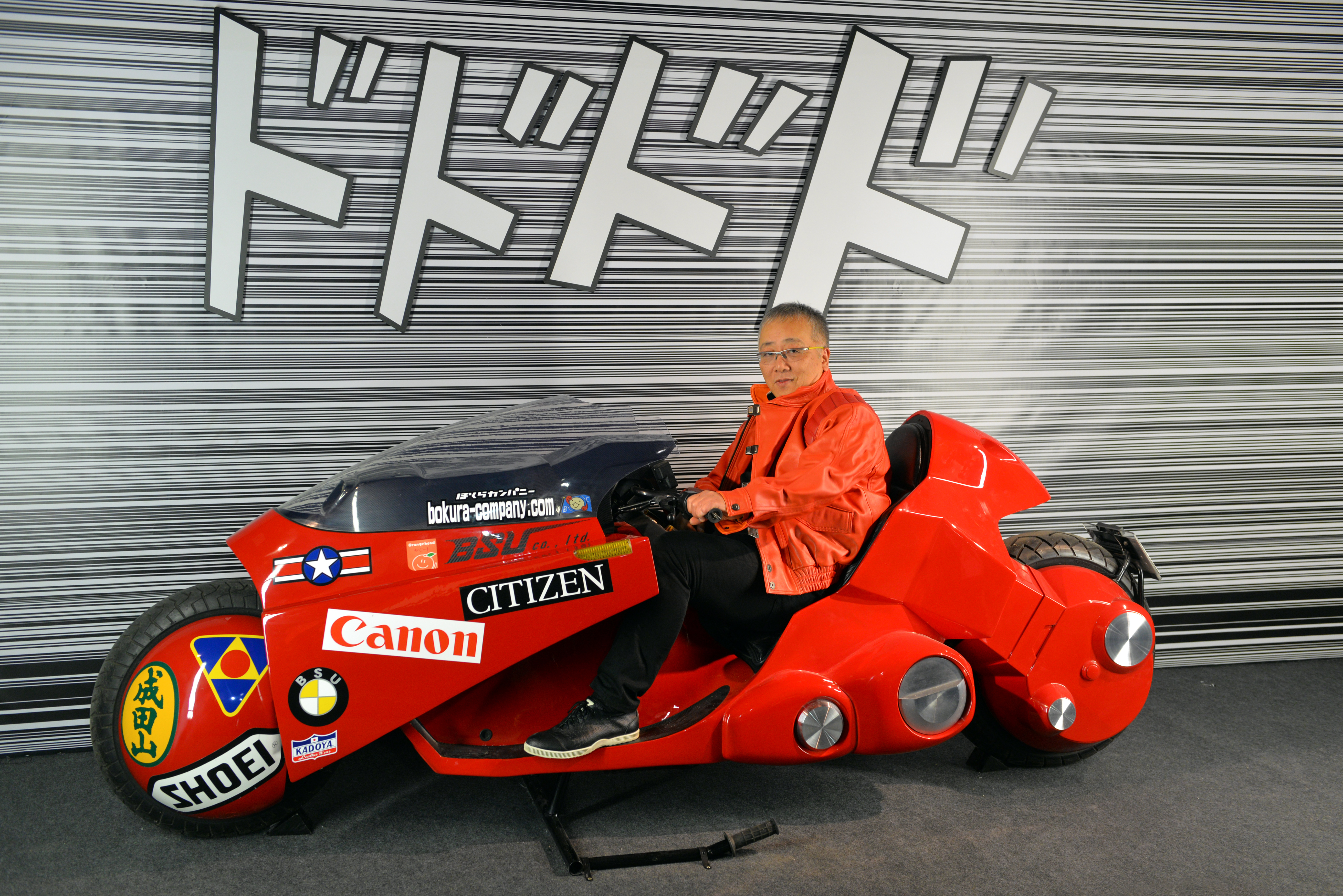 Katsuhiro Otomo riding Kaneda's motorcycle at Angoulême International Comics Festival.